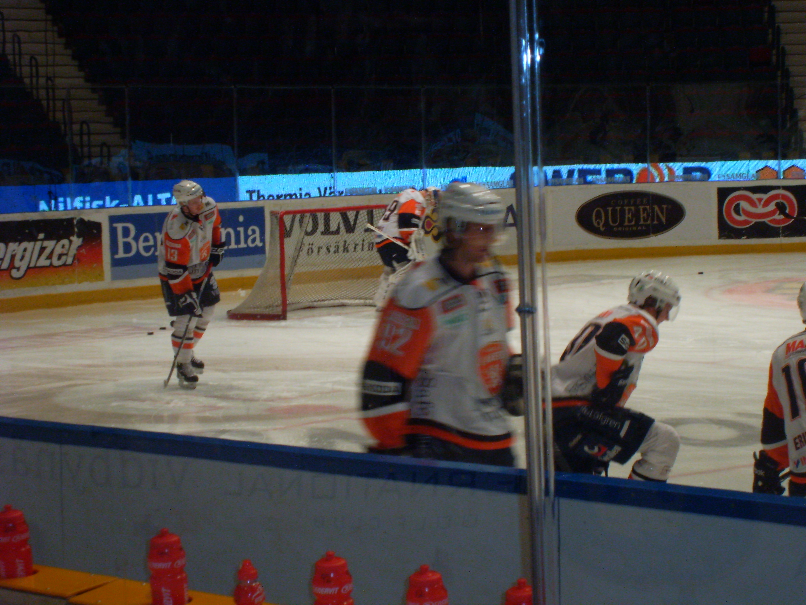 Ice hockey players from Växjö Lakers Hockey during the Hockeyallsvenskan game AIK-Växjö Lakers Hockey at Johanneshovs isstadion on 31 January 2012. AIK won, 3-2. after penalty shootout